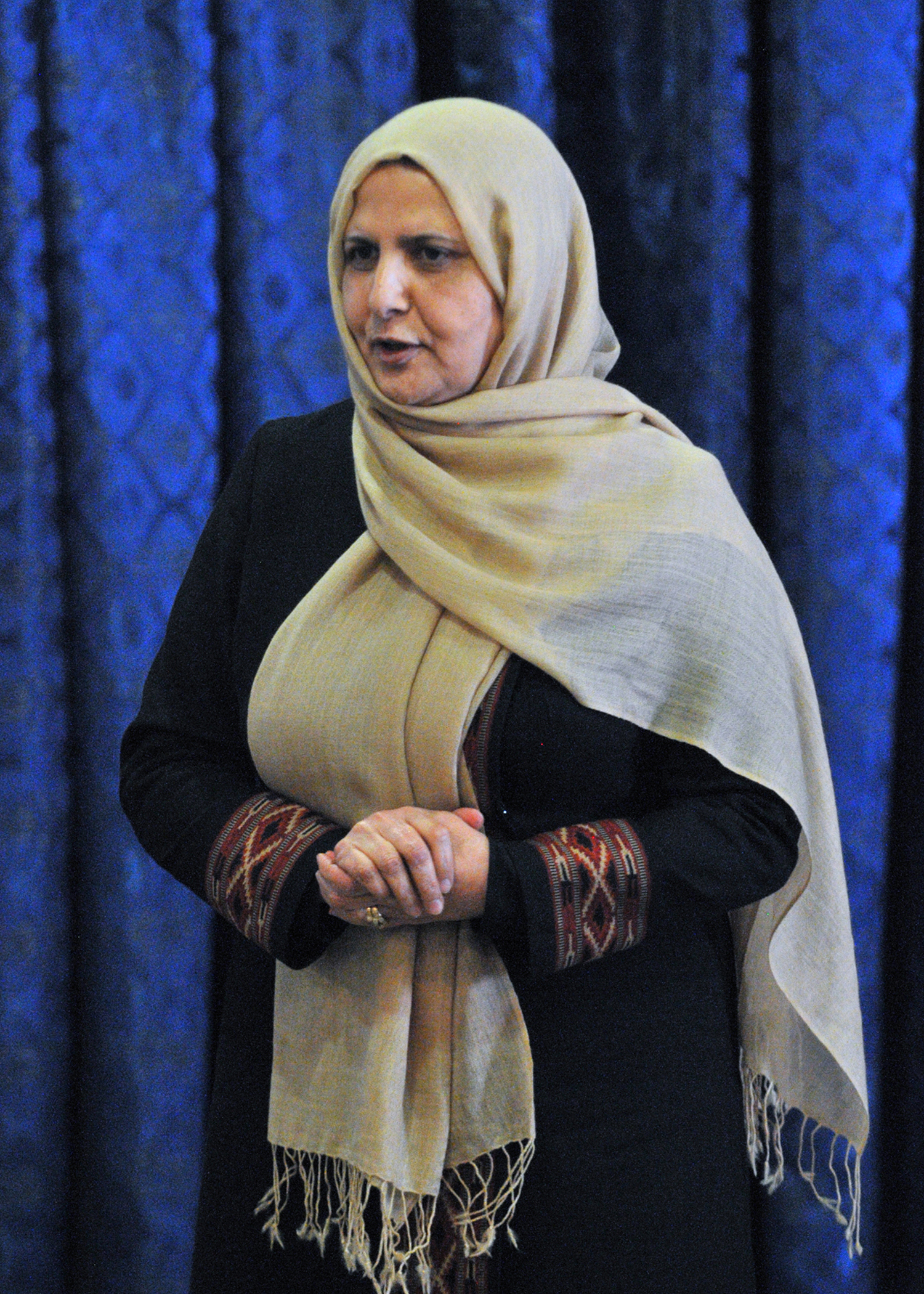 Kabul, Afghanistan – Afghan Minister Amina Afzali, head of the Ministry of Labor and Social Affairs co-hosted the Gender Integration Luncheon at ISAF Headquarters, Feb. 25. Attendees, who included ambassadors, representatives from the United Nations, non-governmental agencies and Afghan ministries, discussed the many strides made in women-related issues in Afghanistan and the Afghan National Security Force. (U.S. Army Photo/ Master Sgt. Kap Kim) (released)